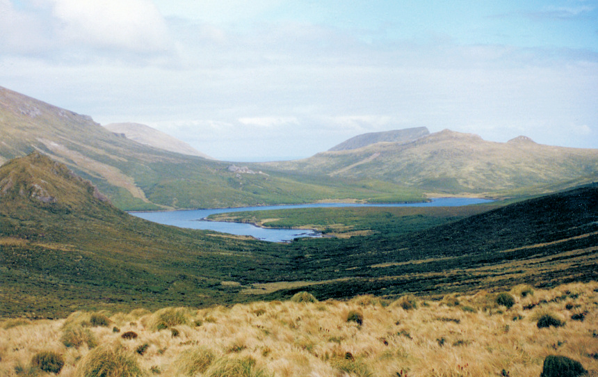 Scanned photo of Campbell Island landscape.